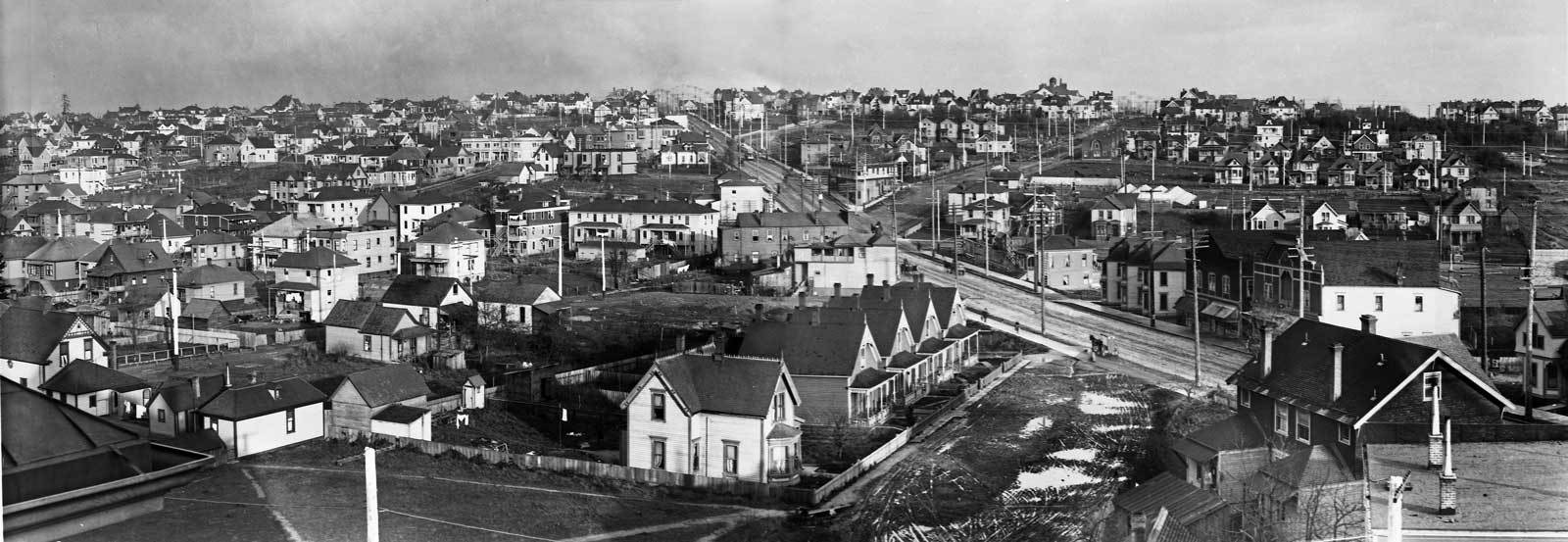 Circa 1905 view of Second Hill (later called Renton Hill and Cherry Hill), Seattle, from the corner of James Street and Broadway Avenue on First Hill, taken by Asahel Curtis. Components of the panorama can be seen below, from University of Washington Libraries Special Collections. Panorama